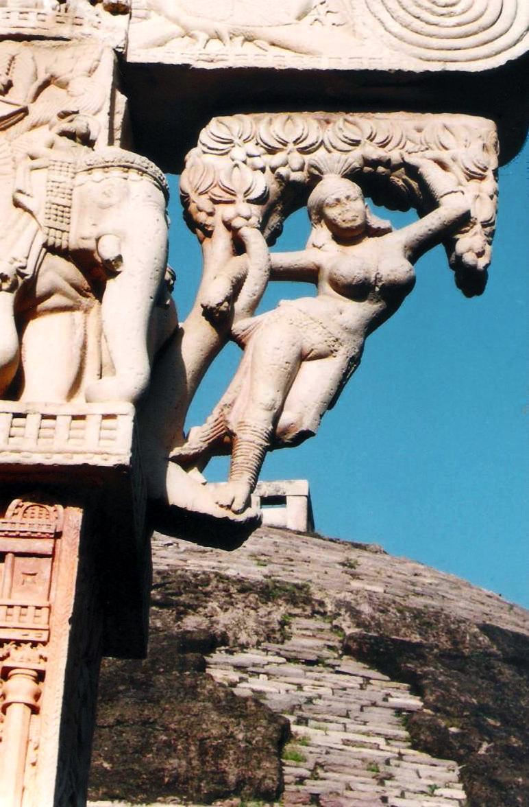 Yakshi, bracket on the torana of the east gate, Sanchi Stupa 1 (Great Stupa). Ist century BC. - Ist century AC.